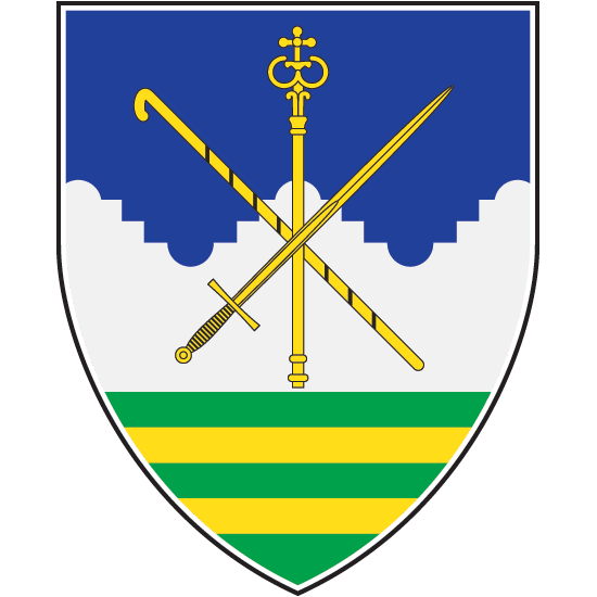 Coat of Arms of the city and municipality of Stara Pazova, Serbia